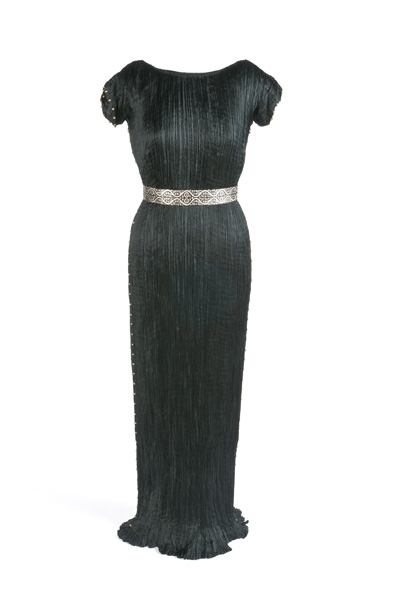 Black silk satin Delphos gown.